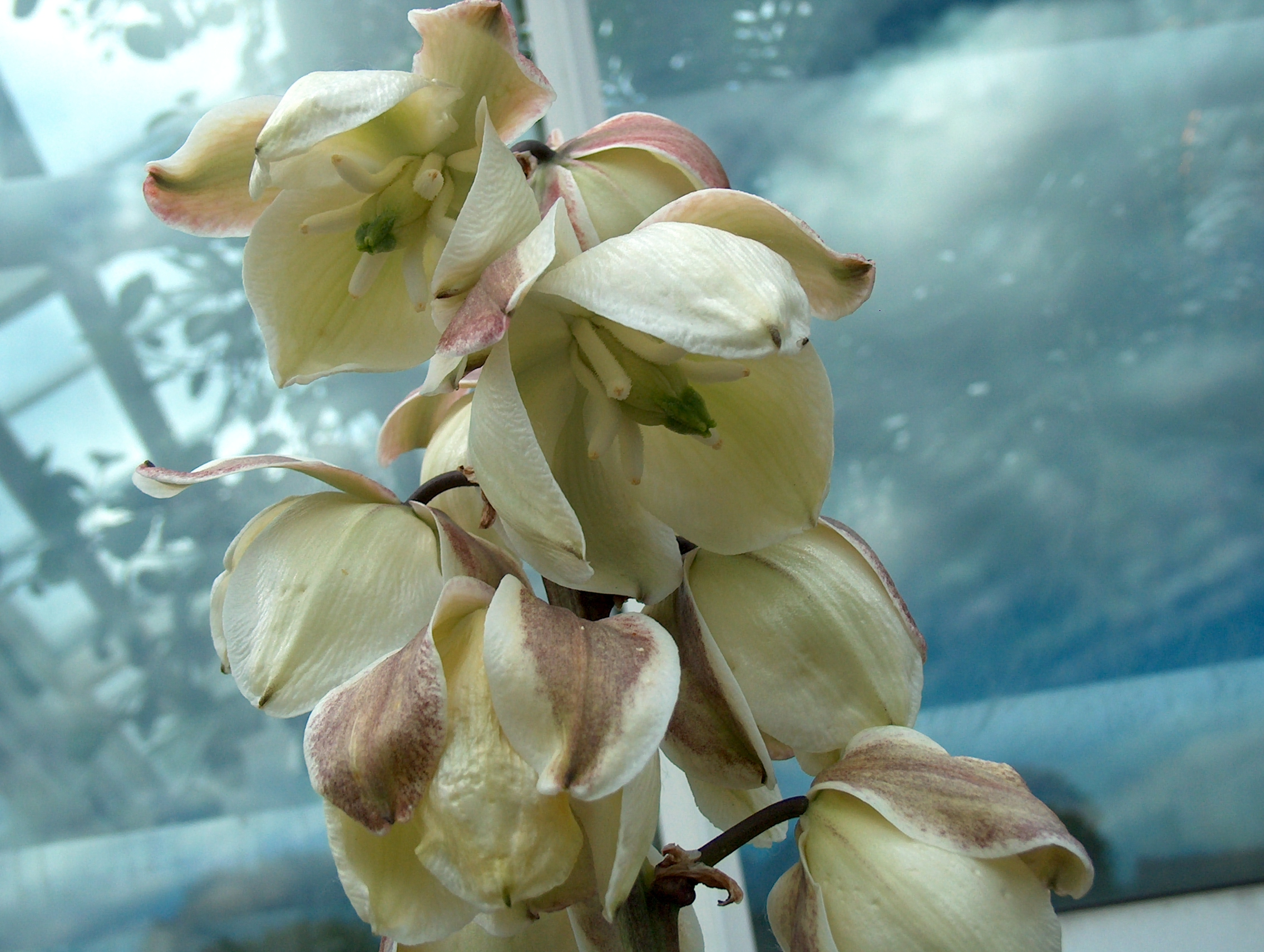 Yucca glauca, Soapweed yucca - Flowers - University of Helsinki Botanical Garden, Finland